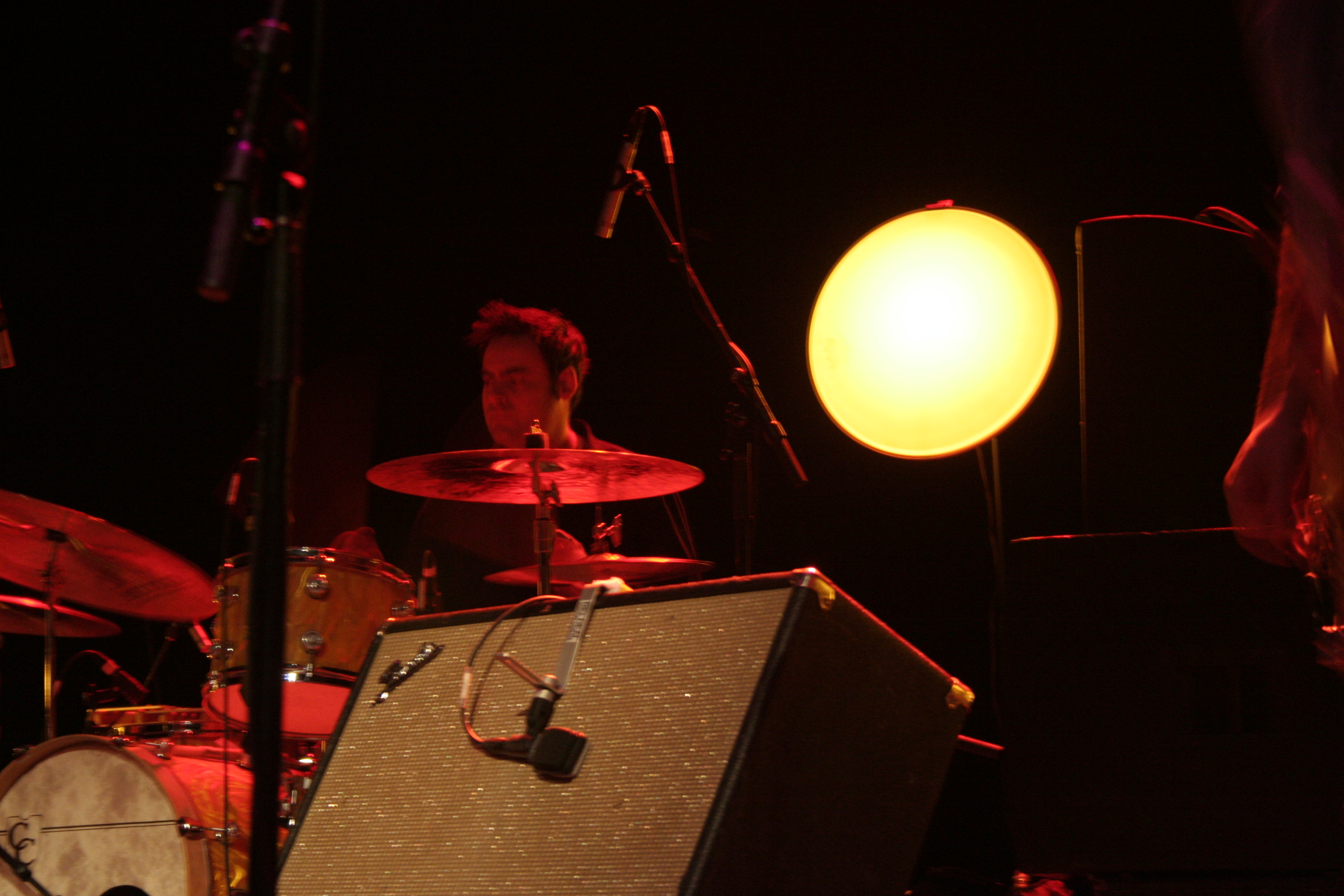 Jason Tait performing with the Weakerthans in Winnipeg, Manitoba, Canada on December 22nd, 2007.